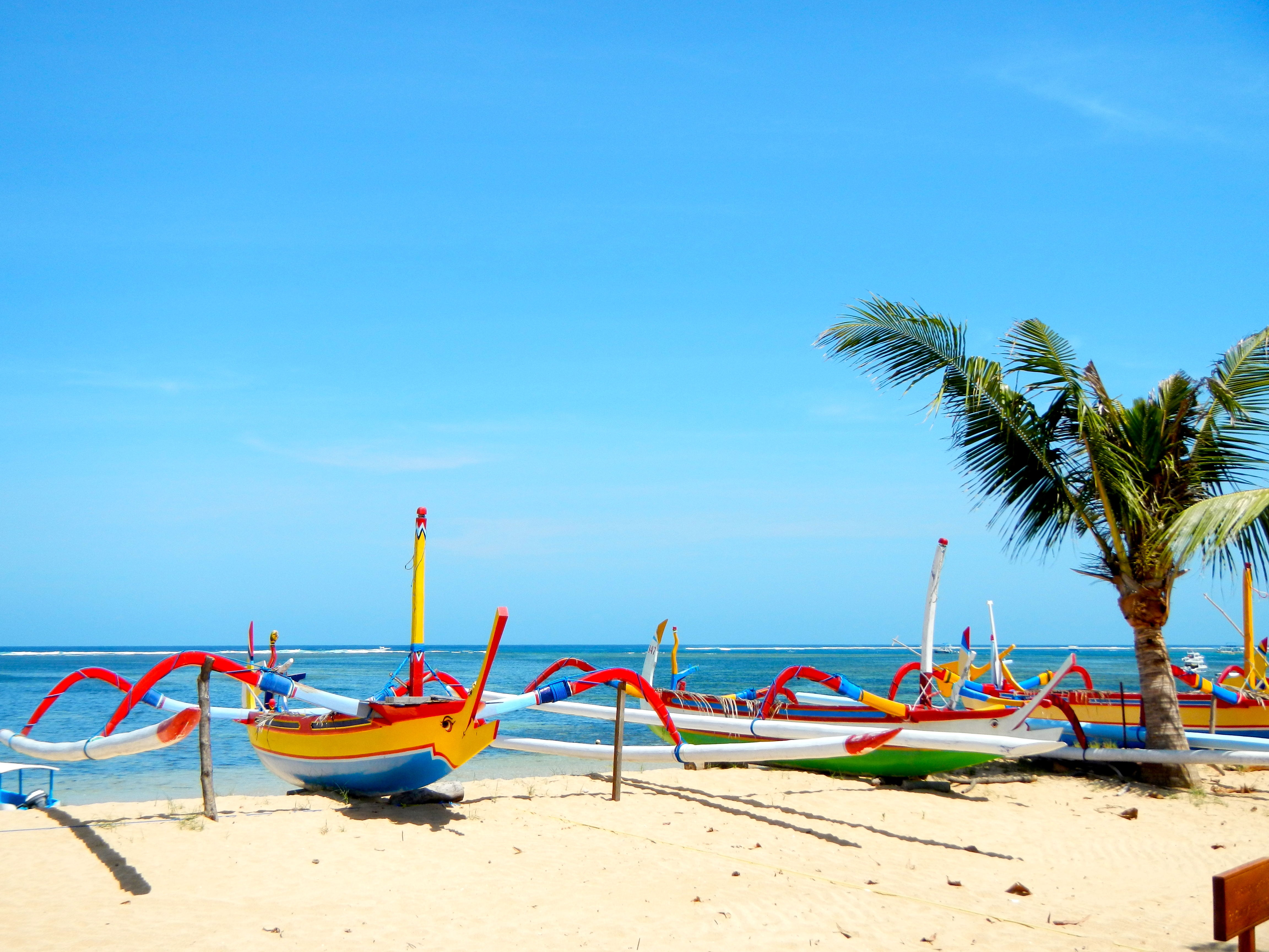 Balinese Jukung Boat on the Beach at Bali, Sanur Beach